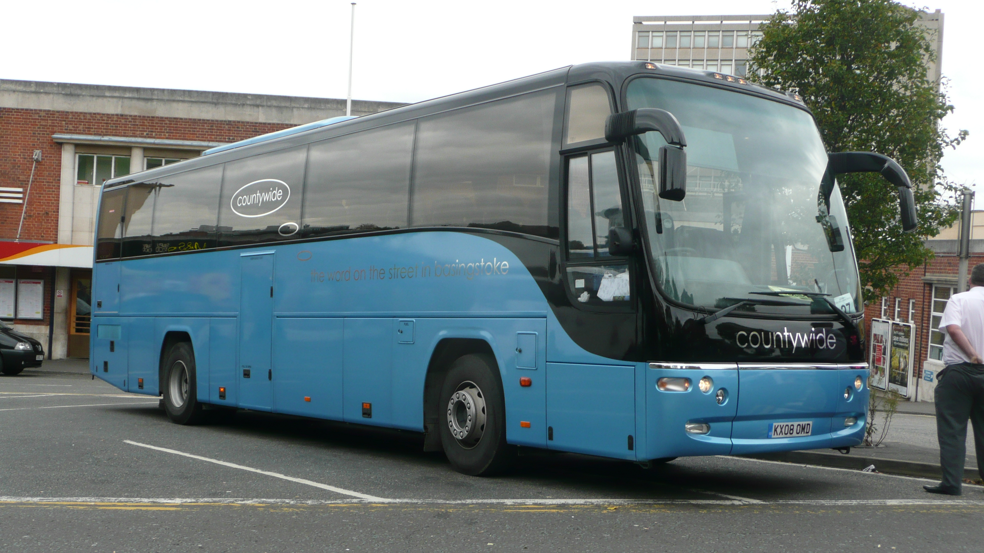 Countywide Travel KX08 OMD, a Volvo B12B/Plaxton Panther, on the south side of Woking railway station, Woking, Surrey, on South West Trains rail replacement work. Countywide Travel is a brand used by Weavaway Travel (Weavaway bought the coach operations of Countywide Travel, the bus operations rebranding as "Fleet Buzz").